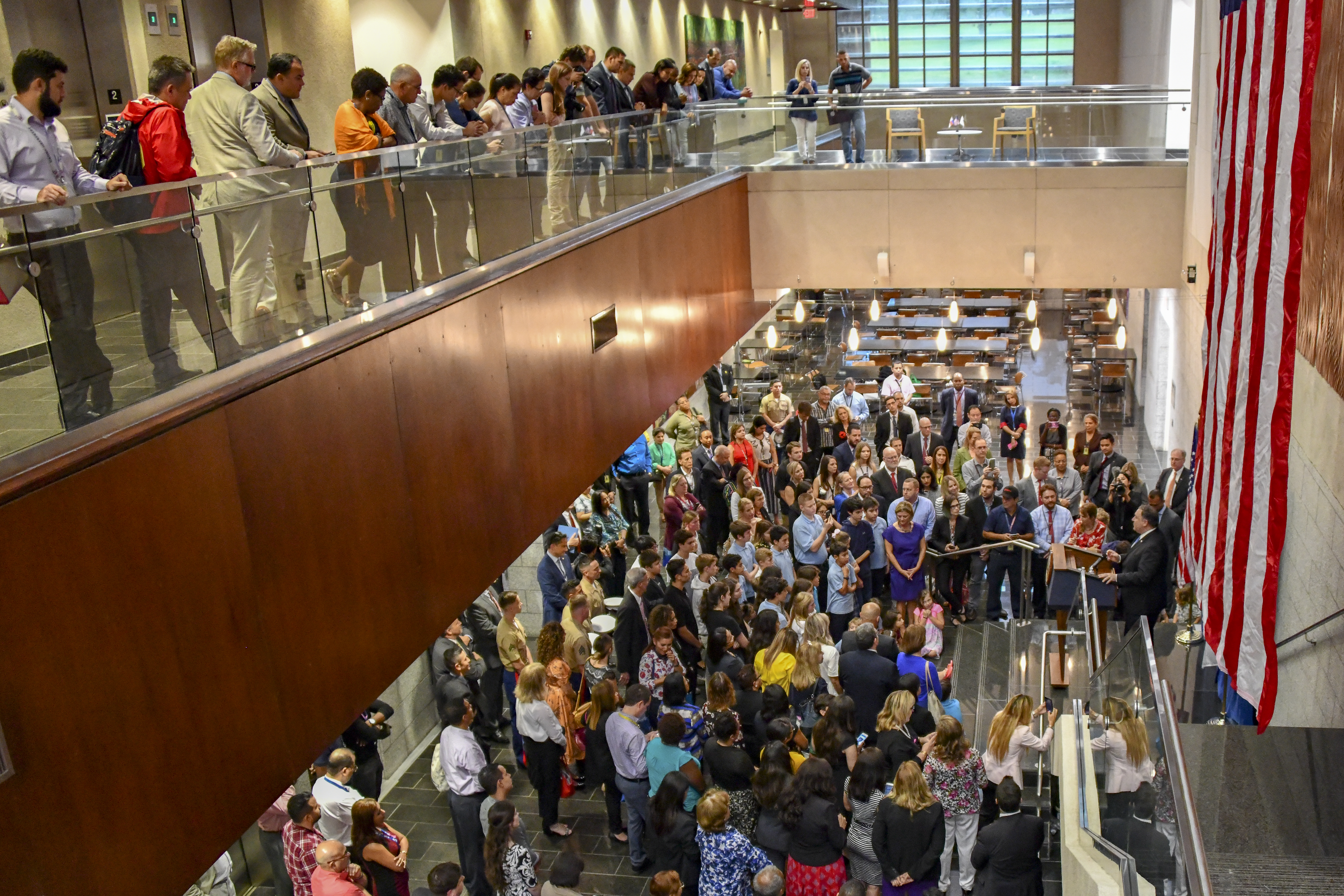 U.S. Secretary of State Michael R. Pompeo greets embassy staff at U.S. Embassy Panama in Panama City on October 18, 2018. [State Department photo/ Public Domain]